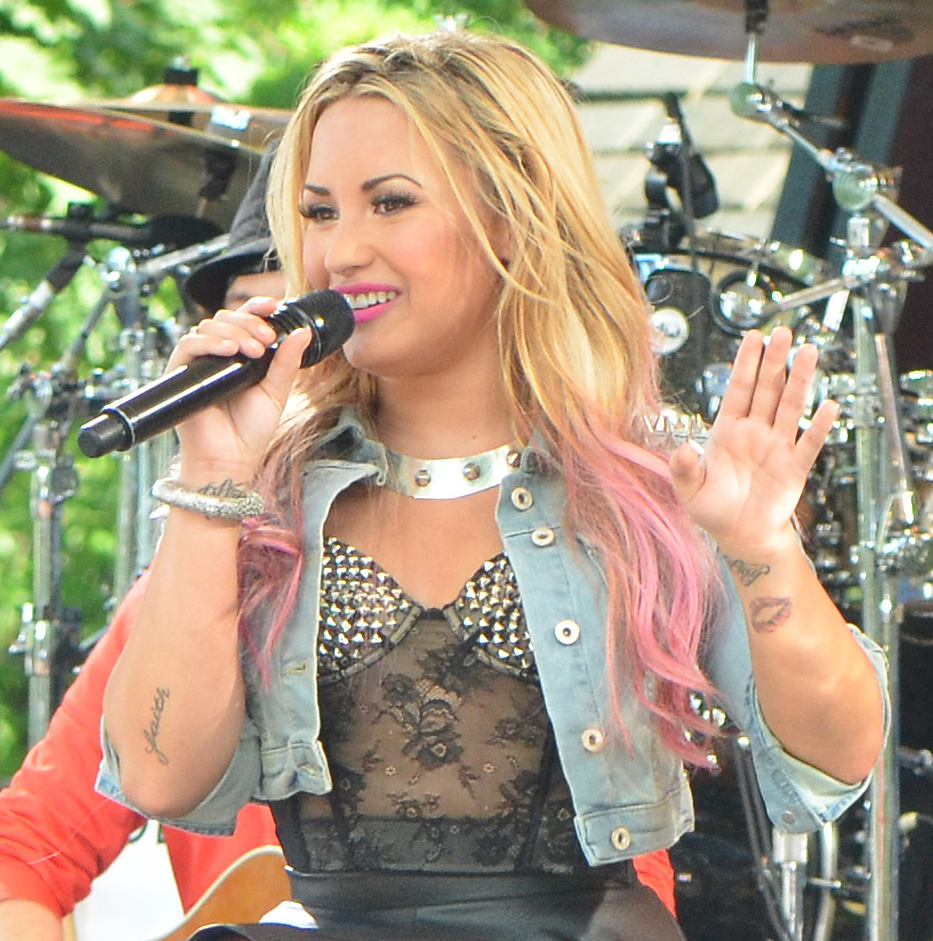 Demi Lovato performing Good Morning America, Summer Concert Event 2012.